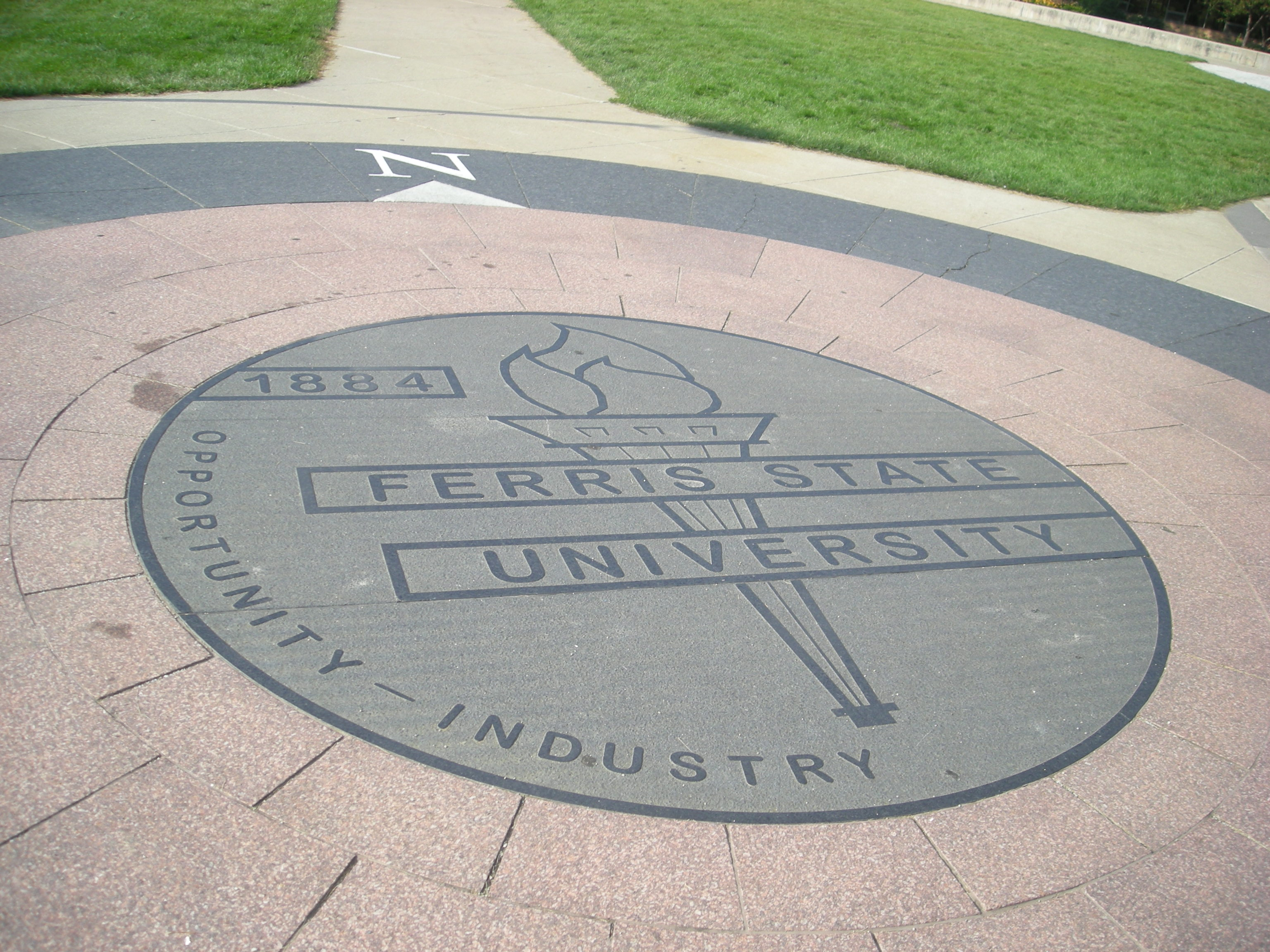 The university seal on a walkway on the campus of Ferris State University in Big Rapids, Michigan (United States).